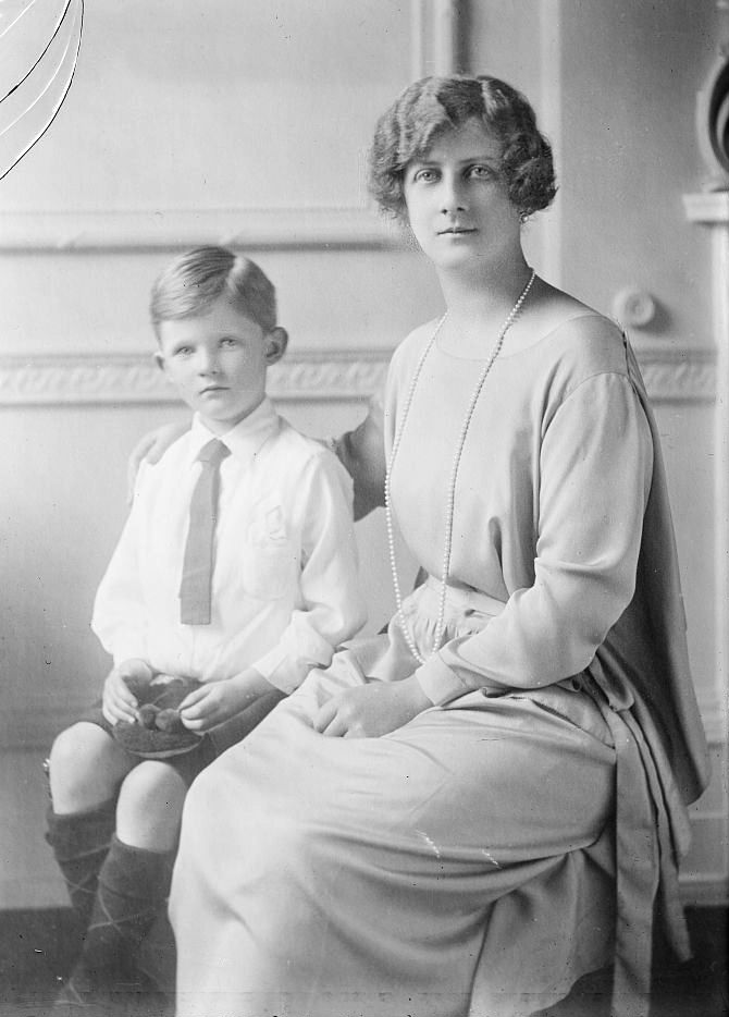 Princess Alexandra, Duchess of Fife, later Princess Arthur of Connaught (1891-1959) with her son Alastair, Earl of Macduff (1914-1943)